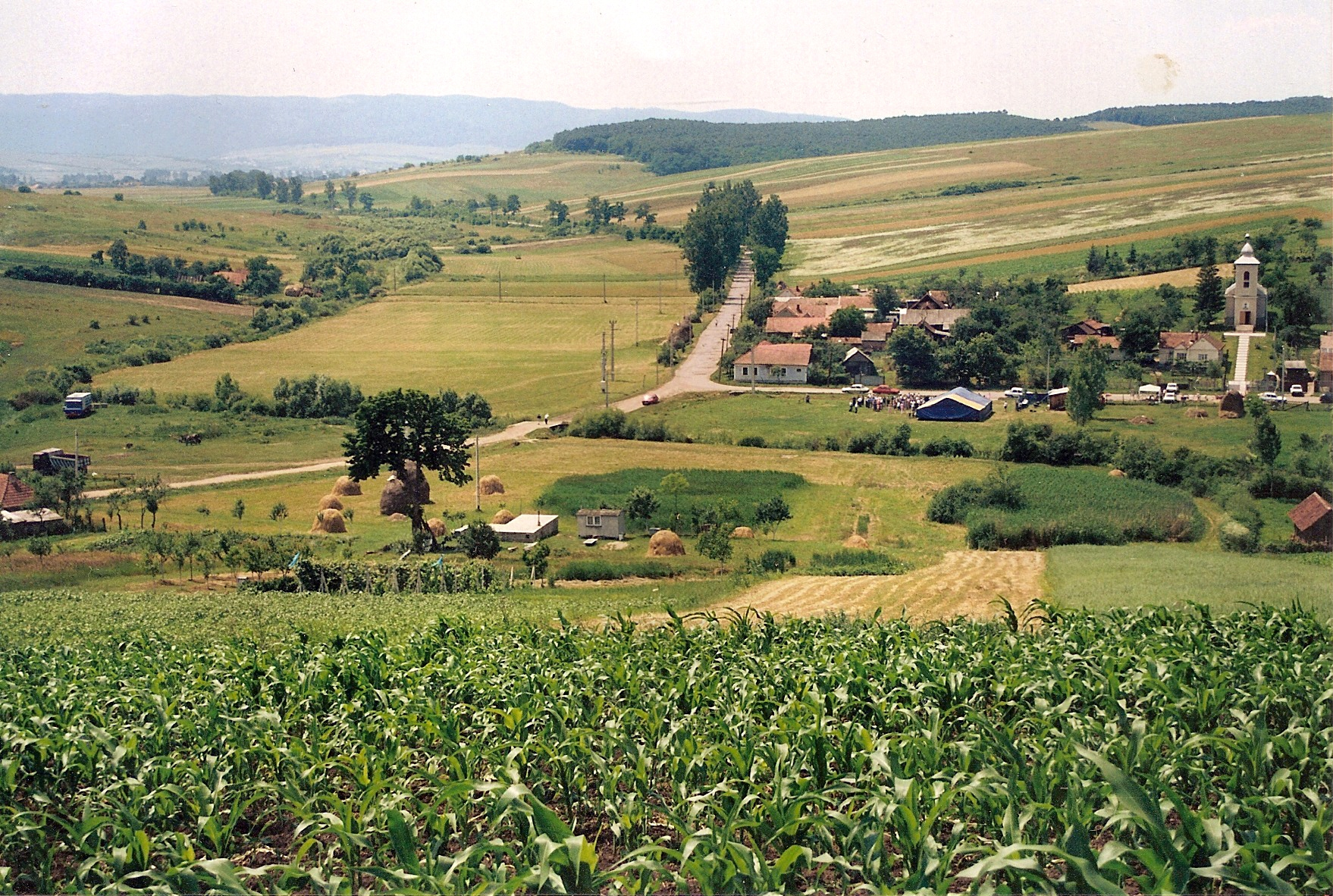 Zauan Bai